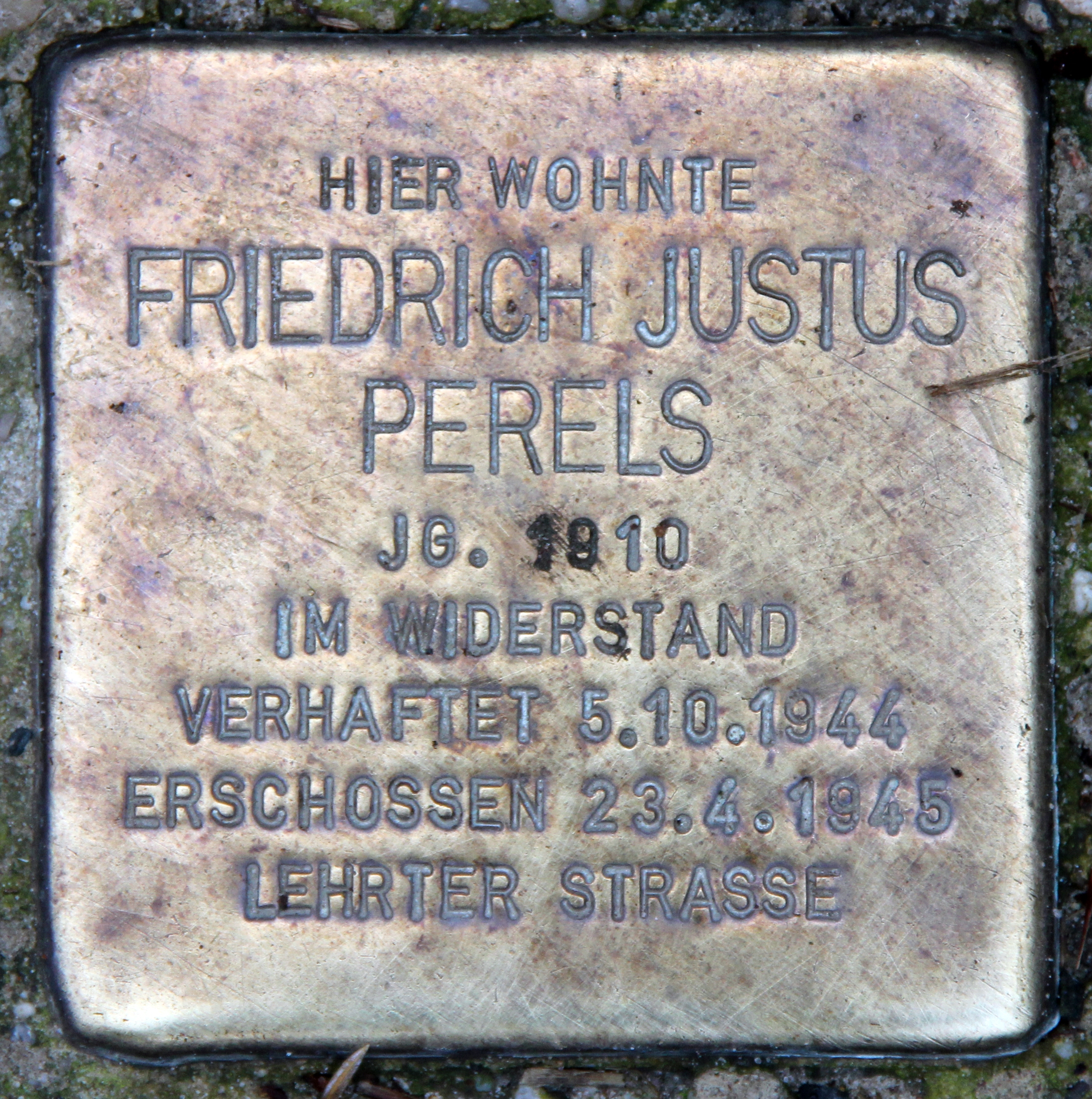 "Stolperstein" (stumbling block), Friedrich Justus Perels, Viktoriastraße 4a, Berlin-Lichterfelde, Germany Koordinate:52°26′37″N 13°18′11″E / 52.44361°N 13.30306°E